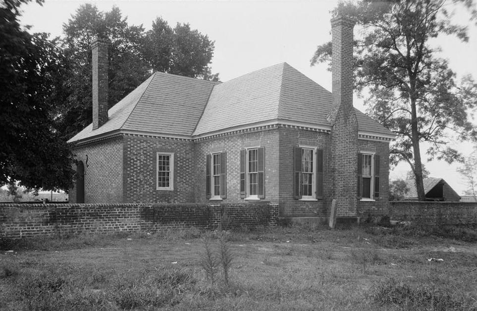 The King William County Courthouse in King William, Virginia.